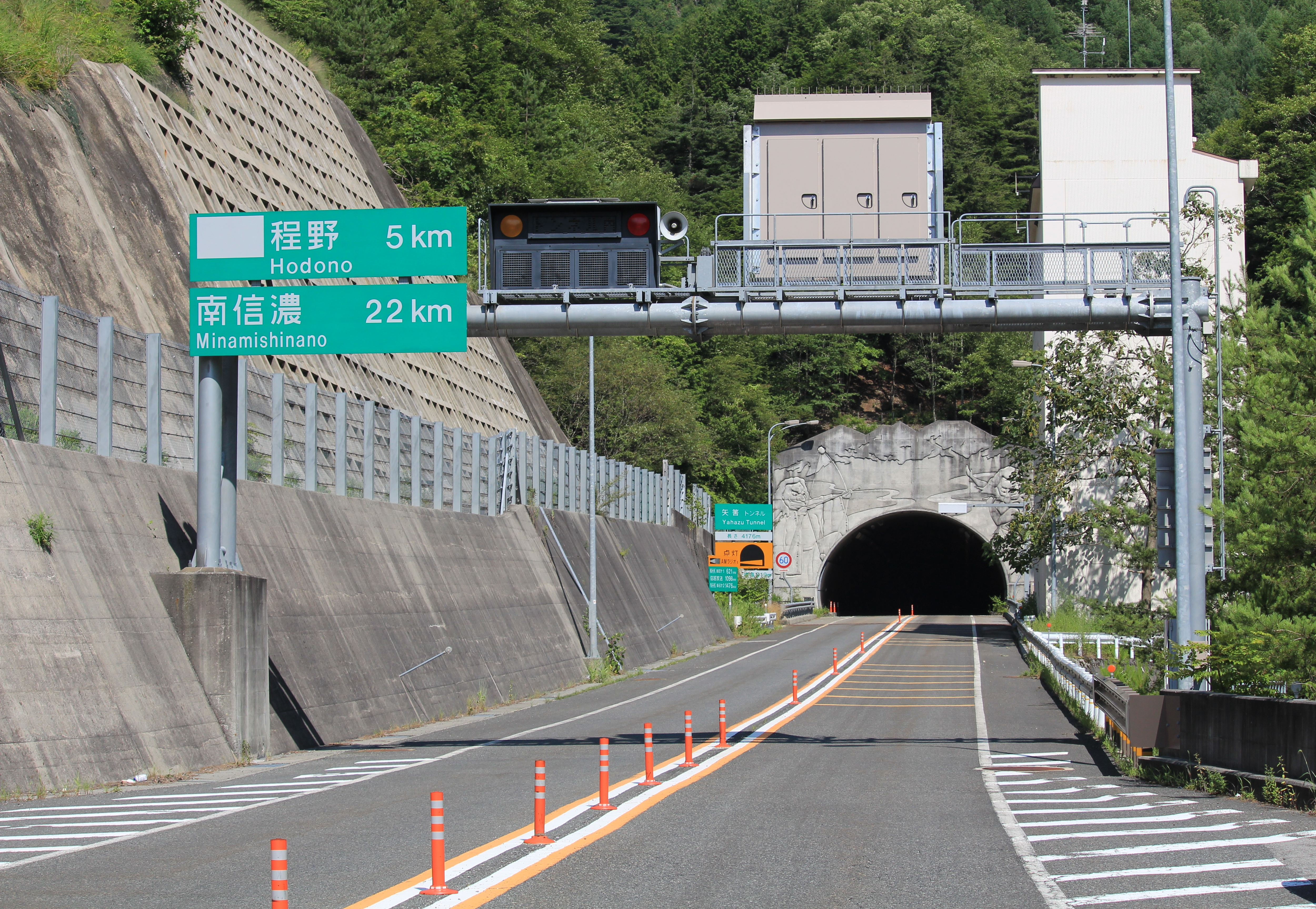 Yahazu Tunnel of San-En-Nanshin Expressway in Iida, Nagano prefecture, Japan.